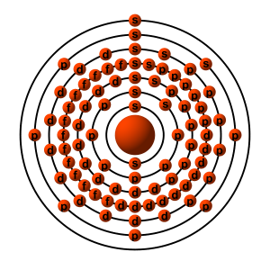 This is a part of a series of drawings of the individual elements electron configuration: Each diagram shows the electron shells with the number of electrons, and furthermore, each electron bears a letter "s", "p", "d" or "f" which shows the orbital electrons belong. This drawing depicts electron configuration in a atom: The big ball in the middle depicts the nucleus, and the little balls are electrons. The color on the big ball in the middle is green for non-metals, blue for the noble gases, violet for actinoids, purple pink for transition metals, red alkali metals, gray for "Other metals", yellow for halogens, orange for the alkaline earth metal arts and brown for half metals.